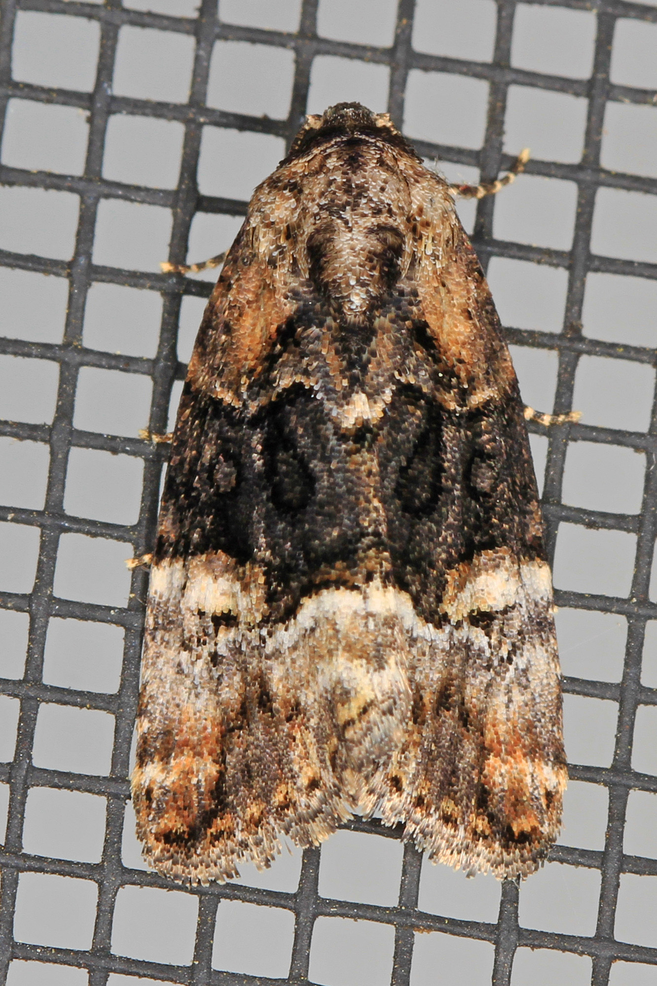 Day 130 - George's Midget - Elaphria georgei, Woodbridge, Virginia